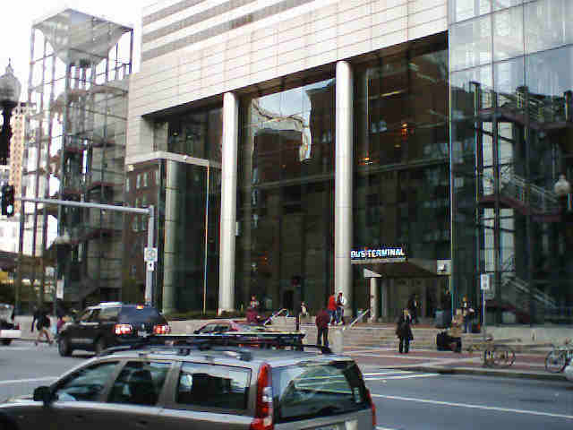 The main bus terminal facility for the city of Boston, Massachusetts.